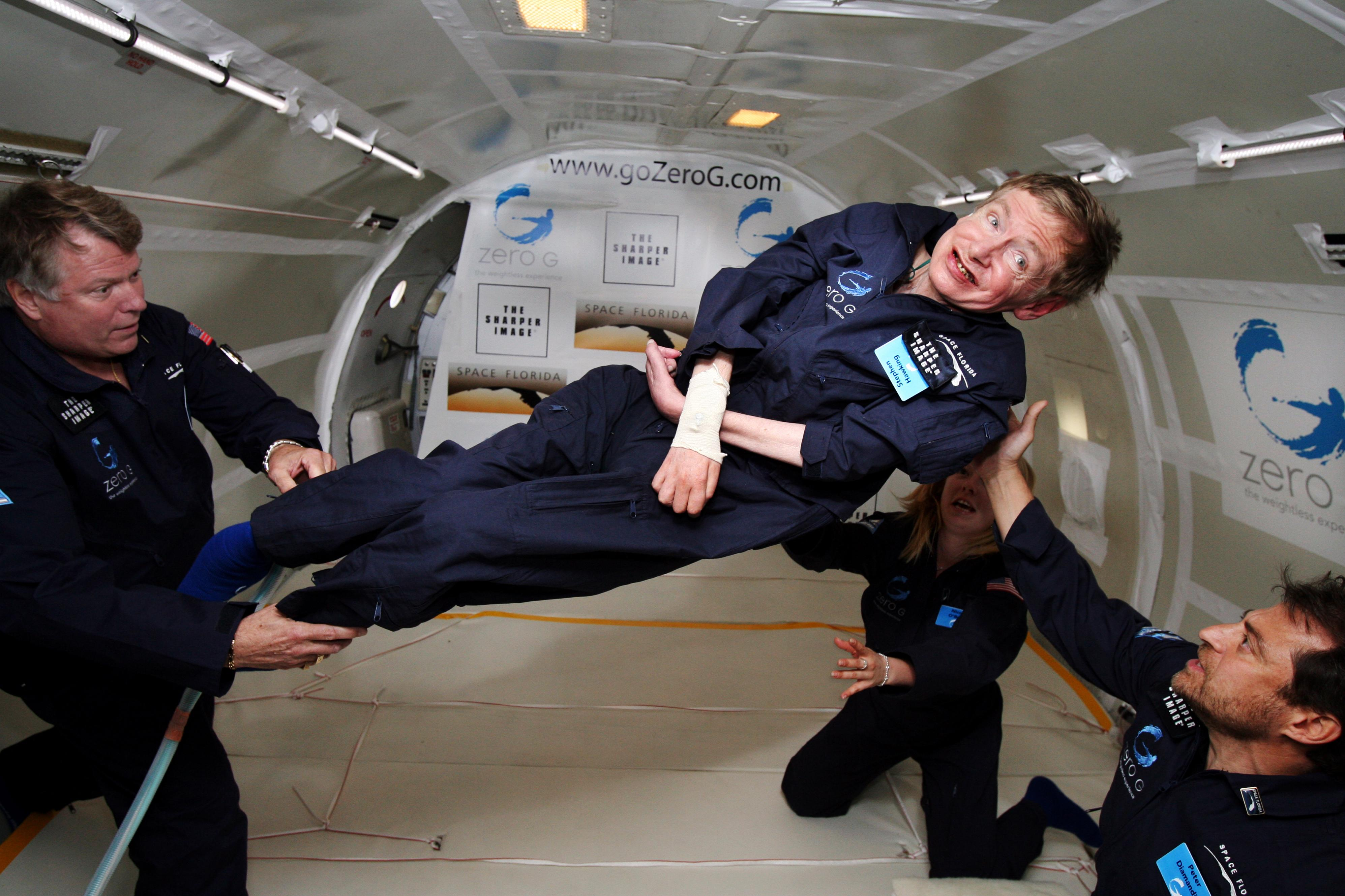 Noted physicist Stephen Hawking (center) enjoys zero gravity during a flight aboard a modified Boeing 727 aircraft owned by Zero Gravity Corp. (Zero G). Hawking, who suffered from amyotrophic lateral sclerosis (also known as Lou Gehrig's disease) is being rotated in air by (right) Peter Diamandis, founder of the Zero G Corp., and (left) Byron Lichtenberg, former shuttle payload specialist and now president of Zero G. Kneeling below Hawking is Nicola O'Brien, a nurse practitioner who was Hawking's aide. At the celebration of his 65th birthday on January 8, 2007, Hawking announced his plans for a zero-gravity flight to prepare for a sub-orbital space flight in 2009 on Virgin Galactic's space service.